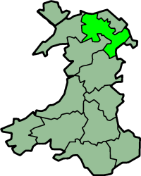 Denbighshire, one of the historic counties of Wales